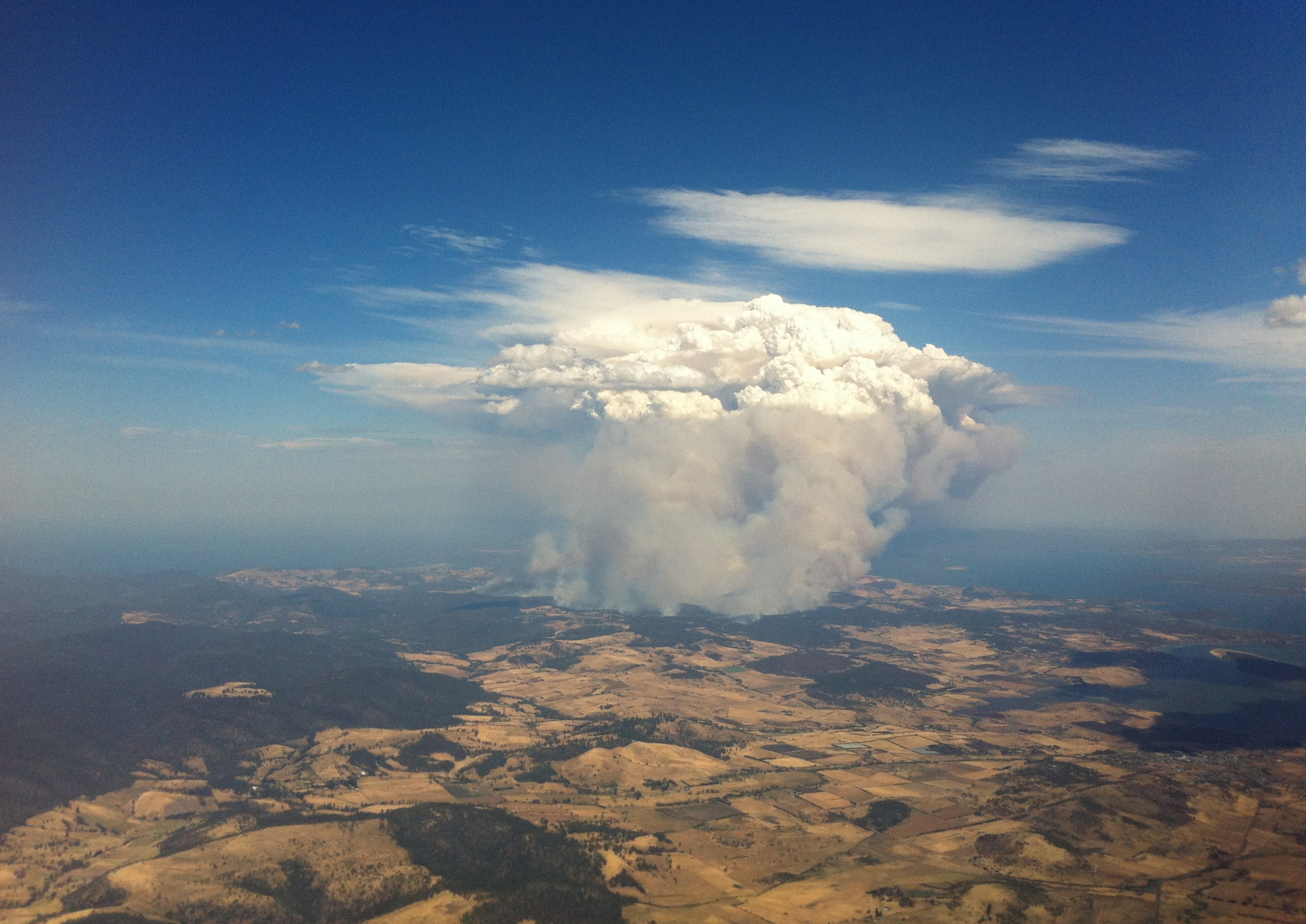 Aerial view of fire at Copping/Forcett at around 4pm on 4 Jan 2013 - view from window of an airplane leaving Hobart Airport.